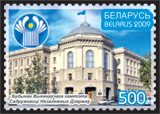 Stamp of Belarus